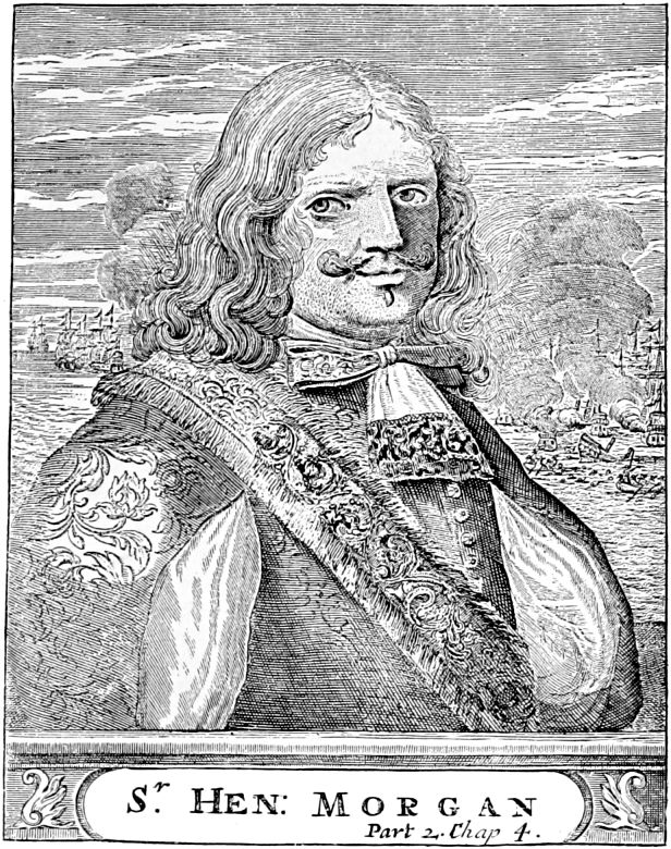 Buccaneer Henry Morgan